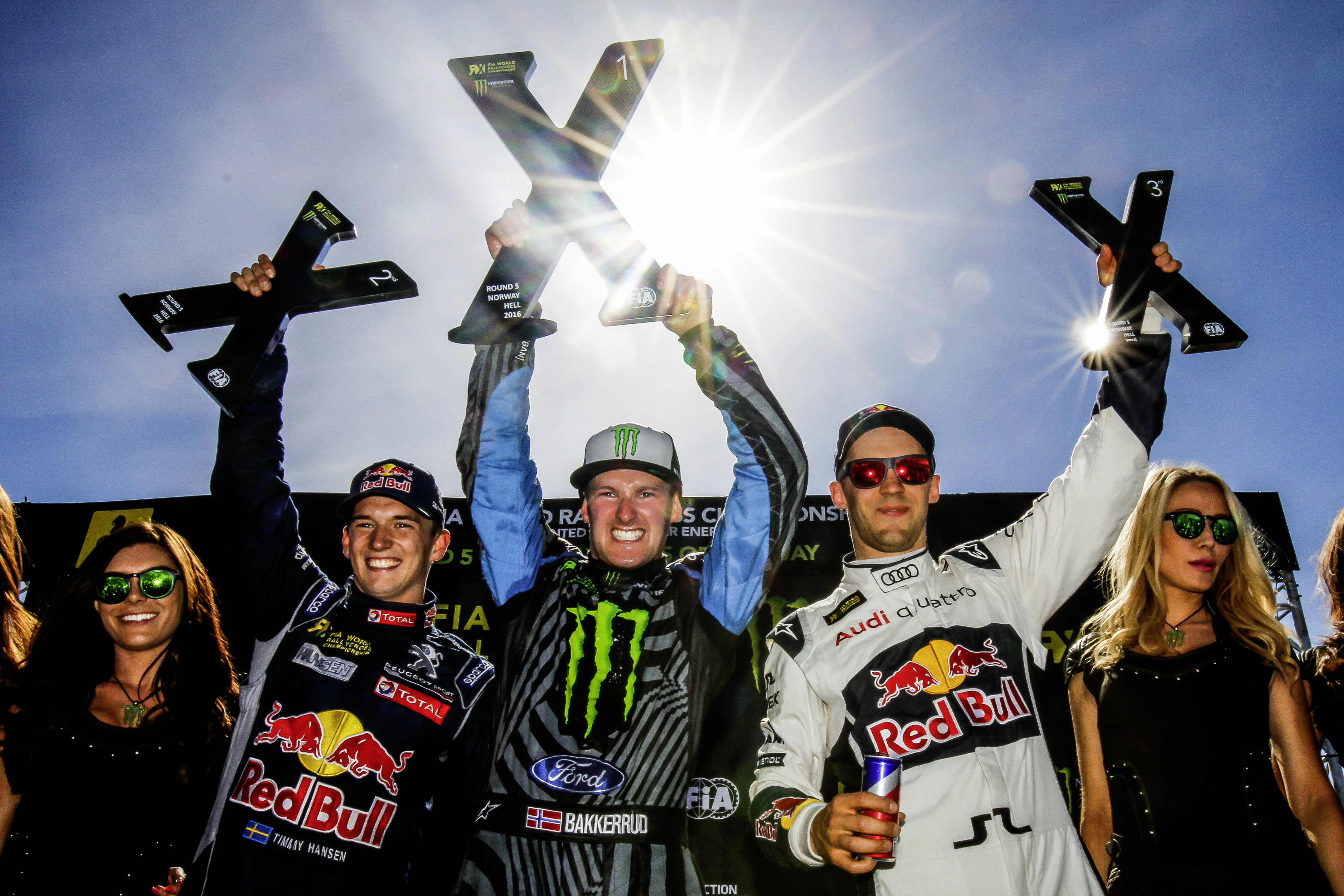 2016 FIA World Rallycross Championship / Round 05, Hell, Norway / June 10-12 2016 // Worldwide Copyright: Colin McMaster/EKS/McKlein